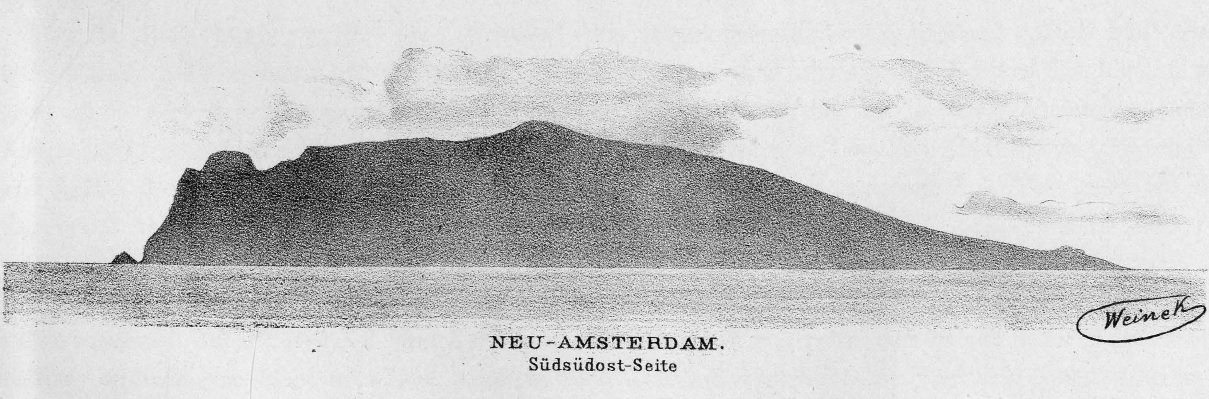 South east side of Amsterdam Island in the Indian Ocean